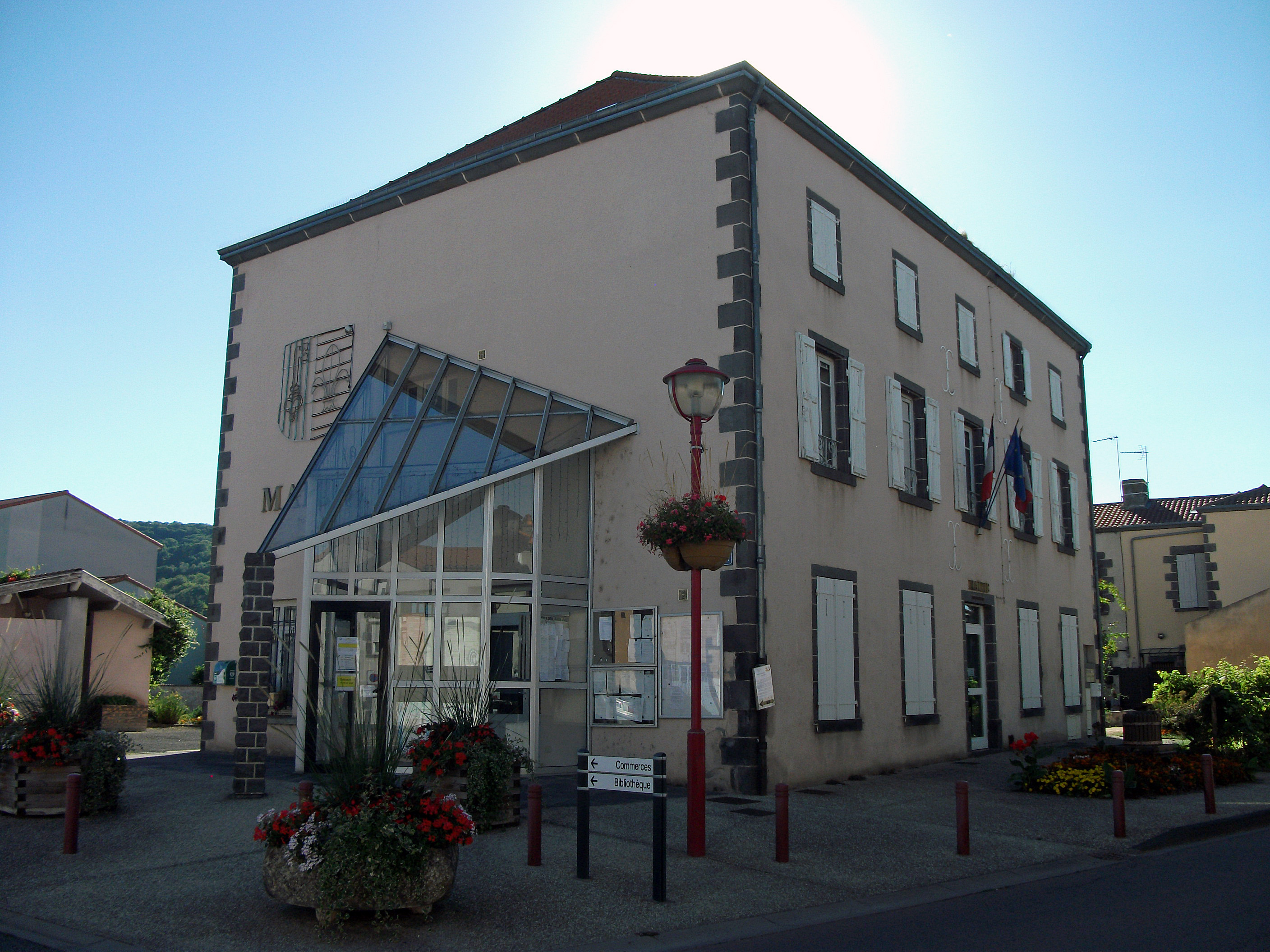 Town hall of Ménétrol, Puy-de-Dôme, France [11526]